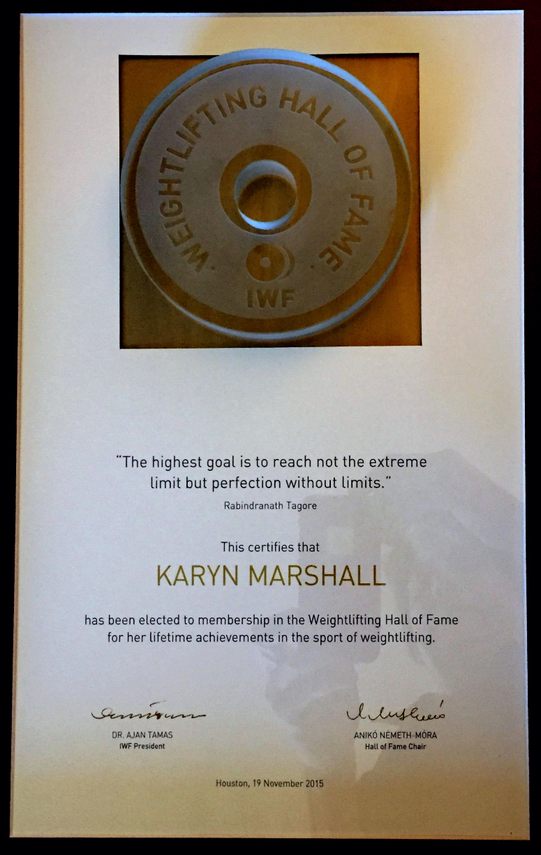 Karyn Marshall, a New Jersey-based chiropractor with Champion Chiropractic, and former world weightlifting champion in 1987, was inducted into the International Weightlifting Hall of Fame in 2015. Shown: the award.